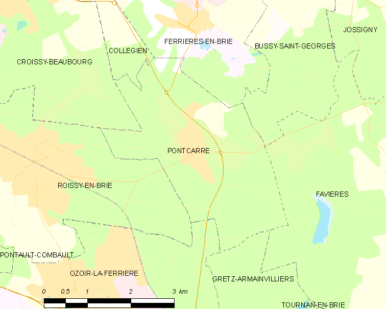 Map of French municipality Pontcarré